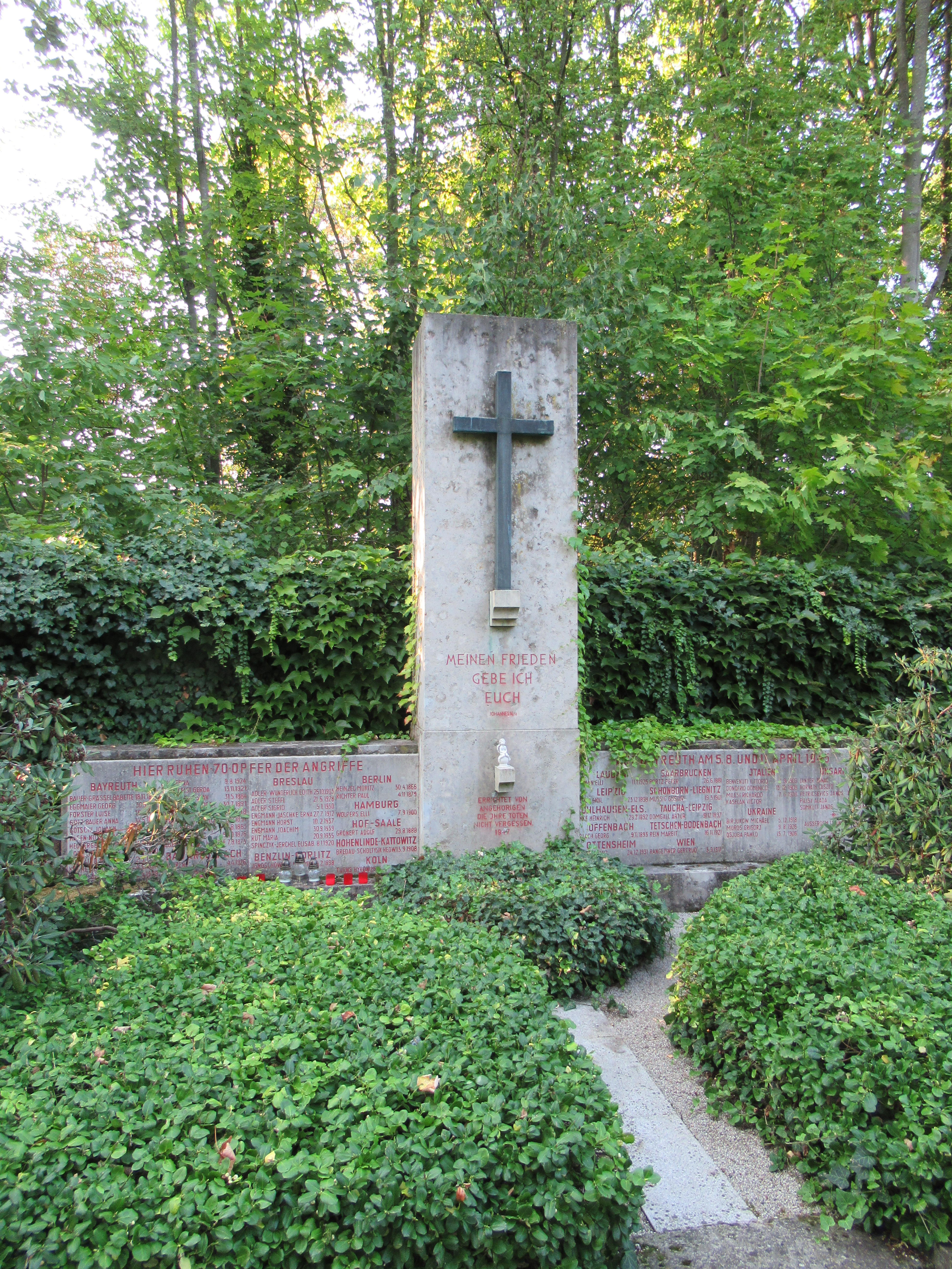 Bombing Victims 1945 at Hauptfriedhof in Bayreuth